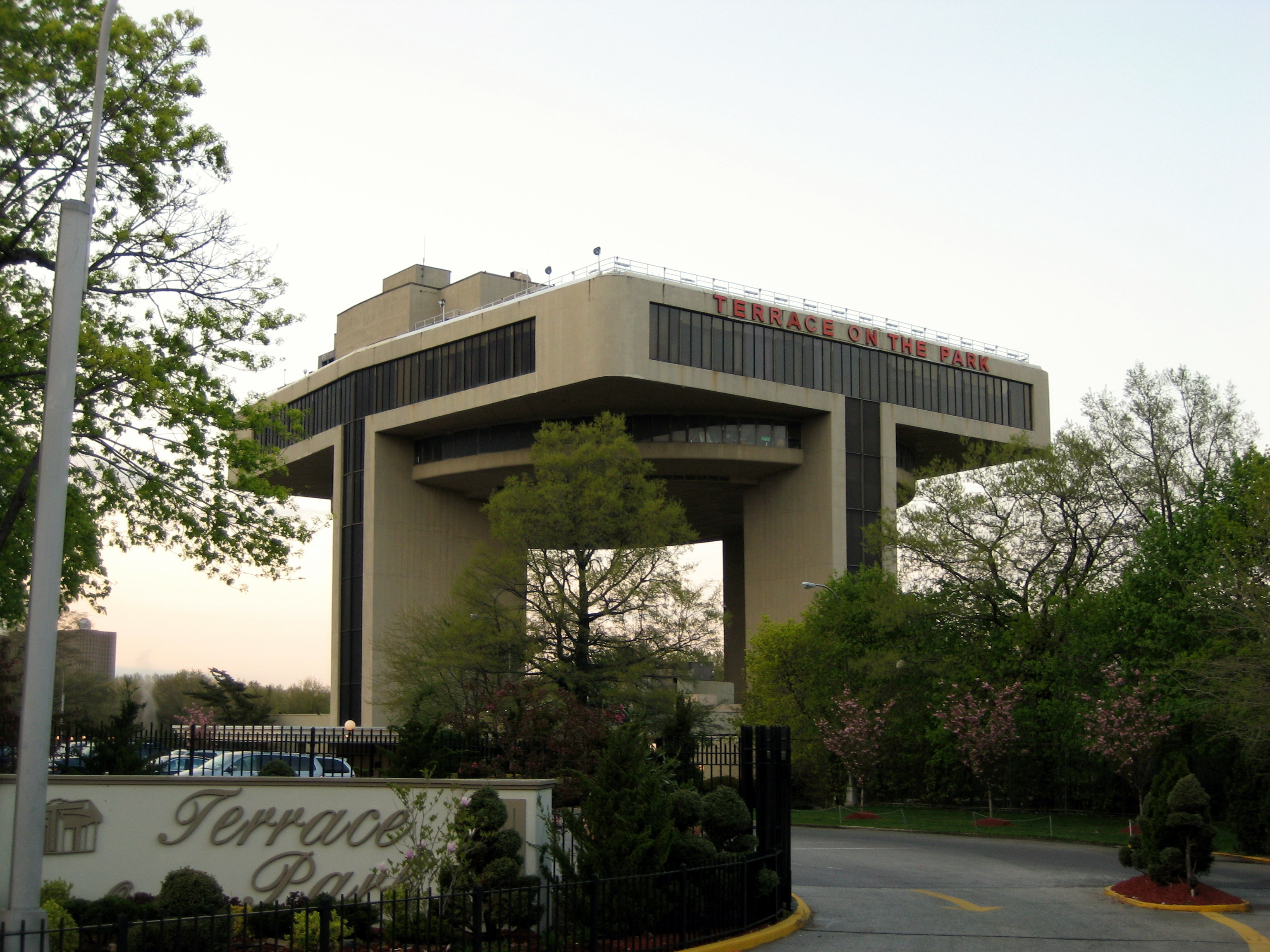 Banquet hall "Terrace on the Park" located in Flushing Meadows-Corona Park, Queens, New York City